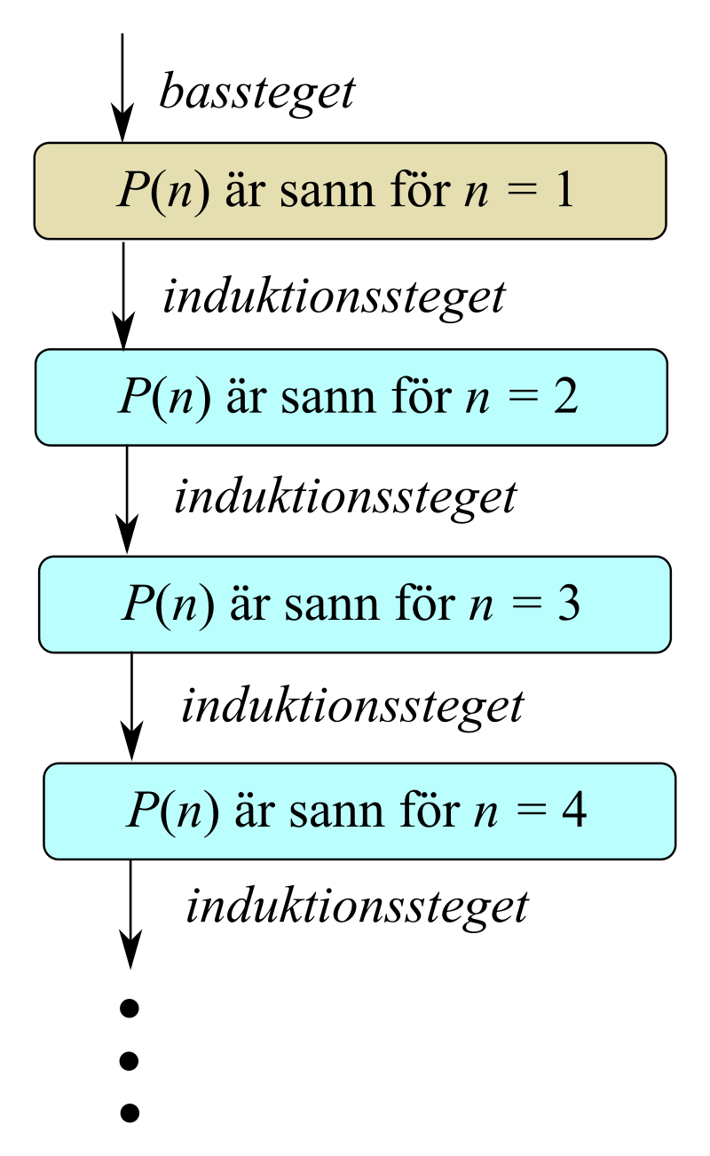 Induktionsbevis steps